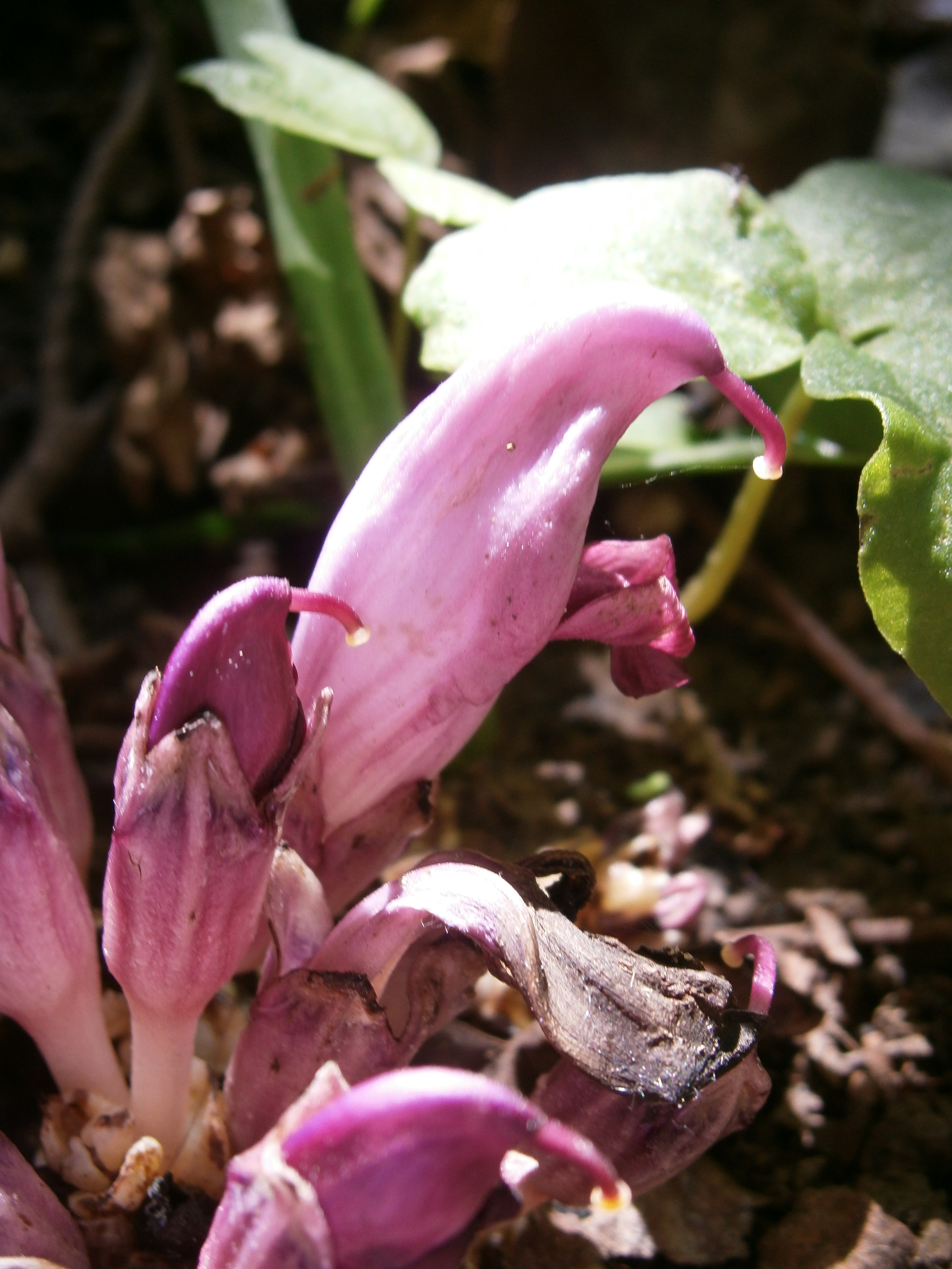 Lathraea clandestina close-up flower